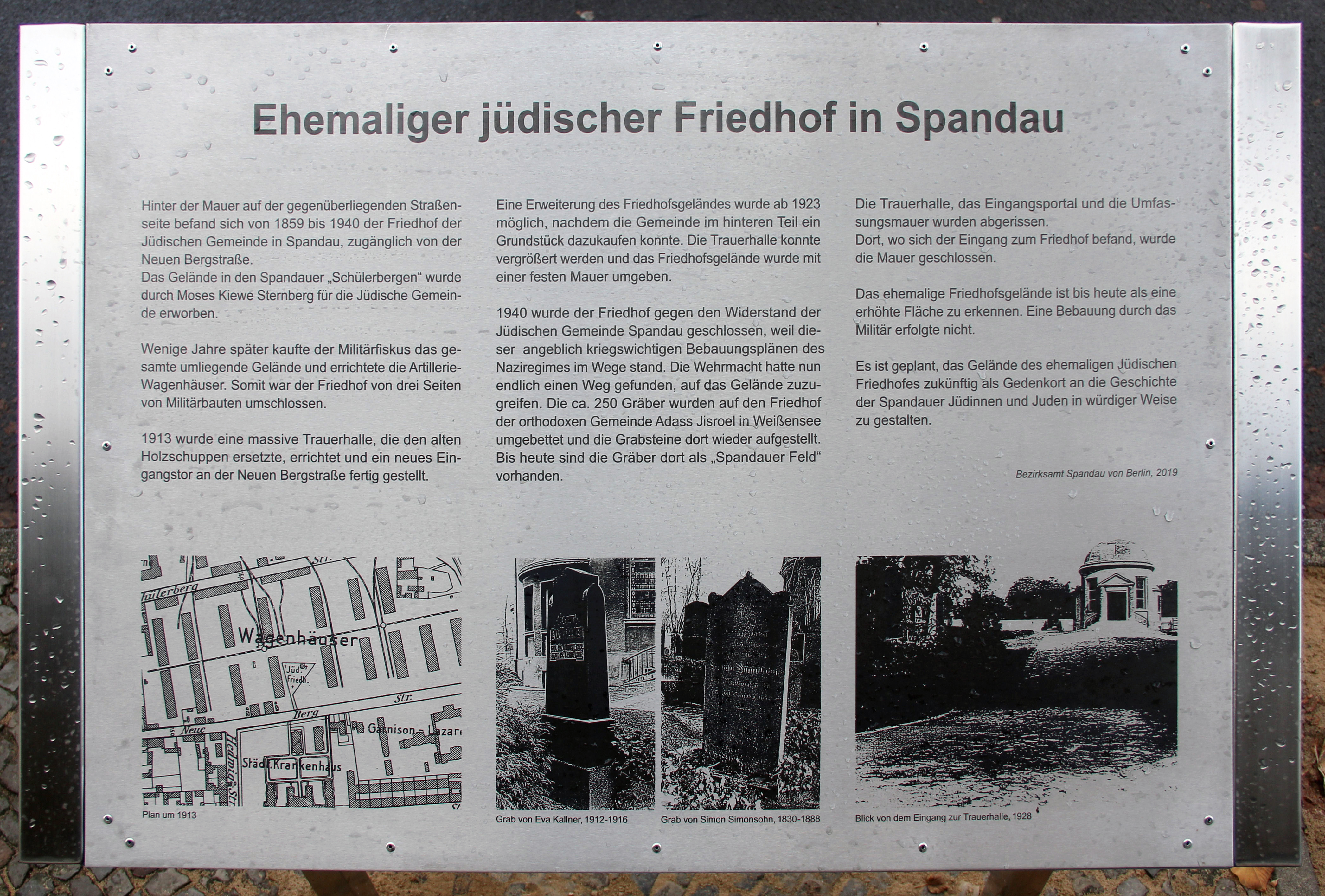 Memorial plaque, Jüdischer Friedhof Berlin-Spandau, Neue Bergstraße 6A, Berlin-Spandau, Deutschland